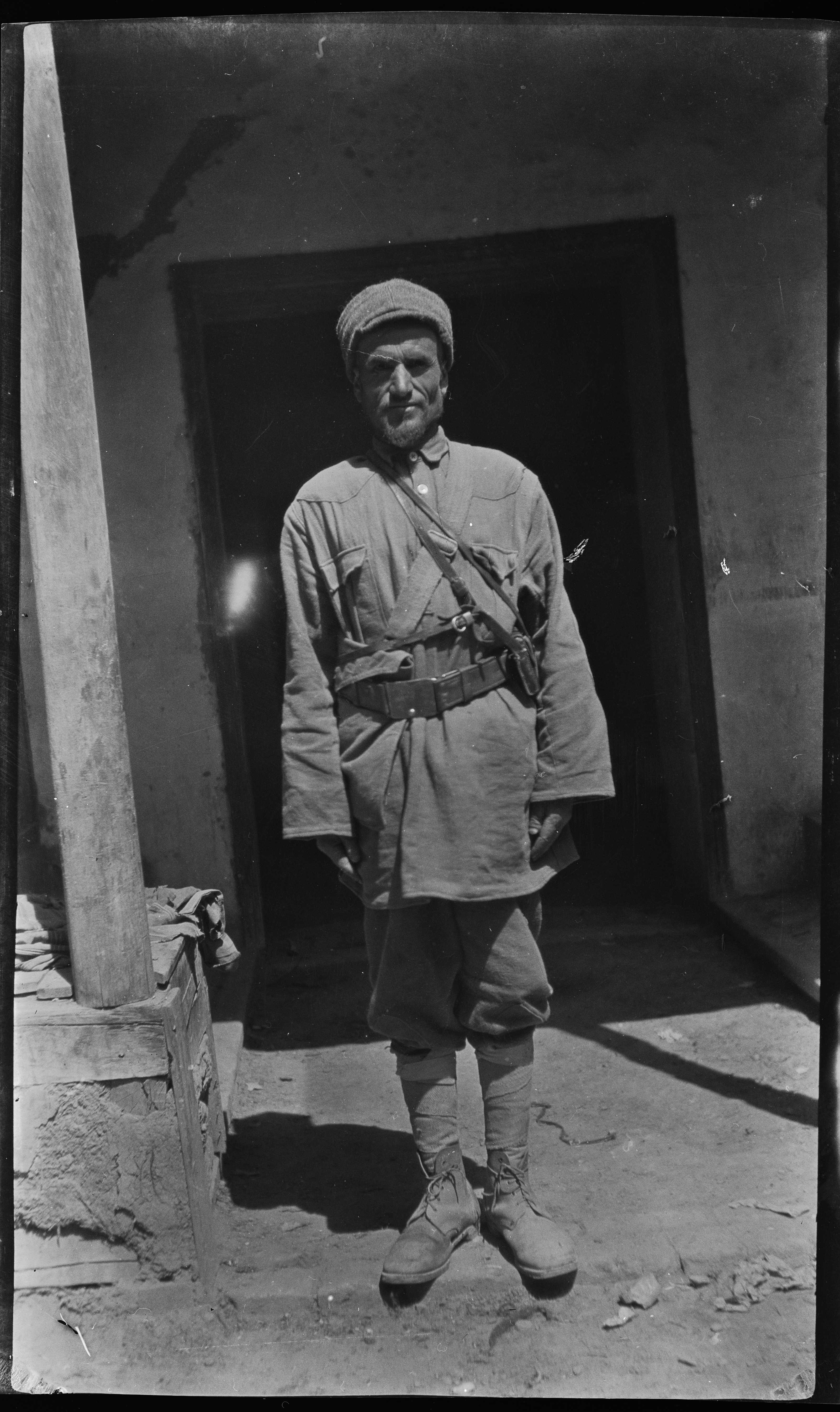 Kabul, Afghanistan Ghul m Maheudd'n, Parachi from Deh-i Kal n in Shutul, northeast of Charikar. Language-informer. Parachi: Iranian language.